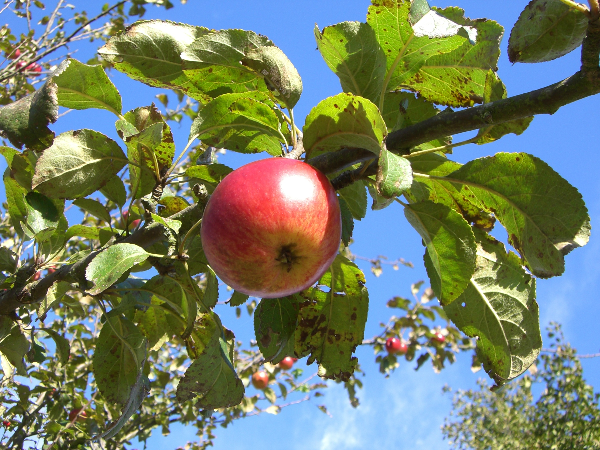 Wild apple tree